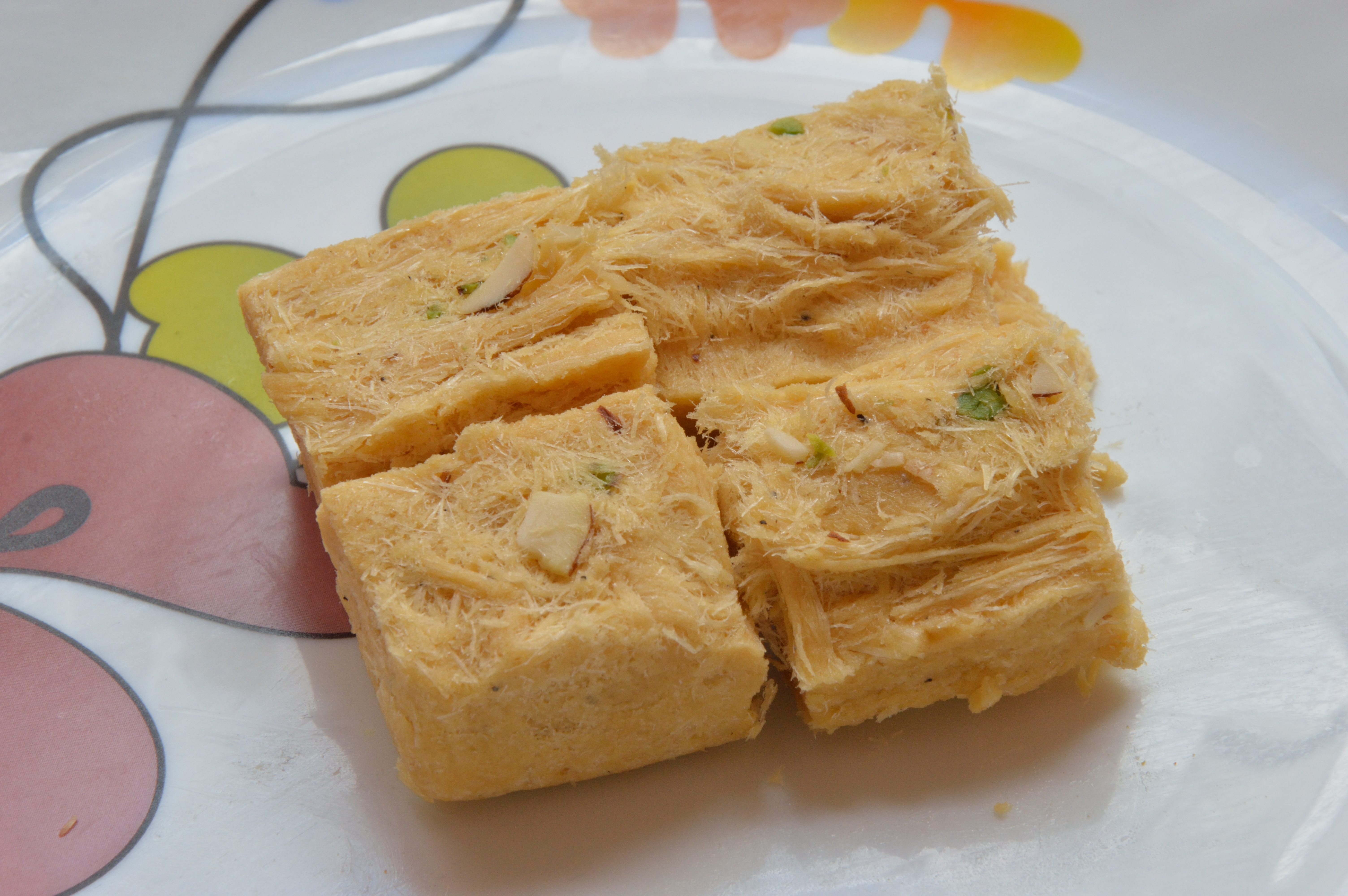 Sweets from Bngal. Photographed in Barrackpore, West Bengal.